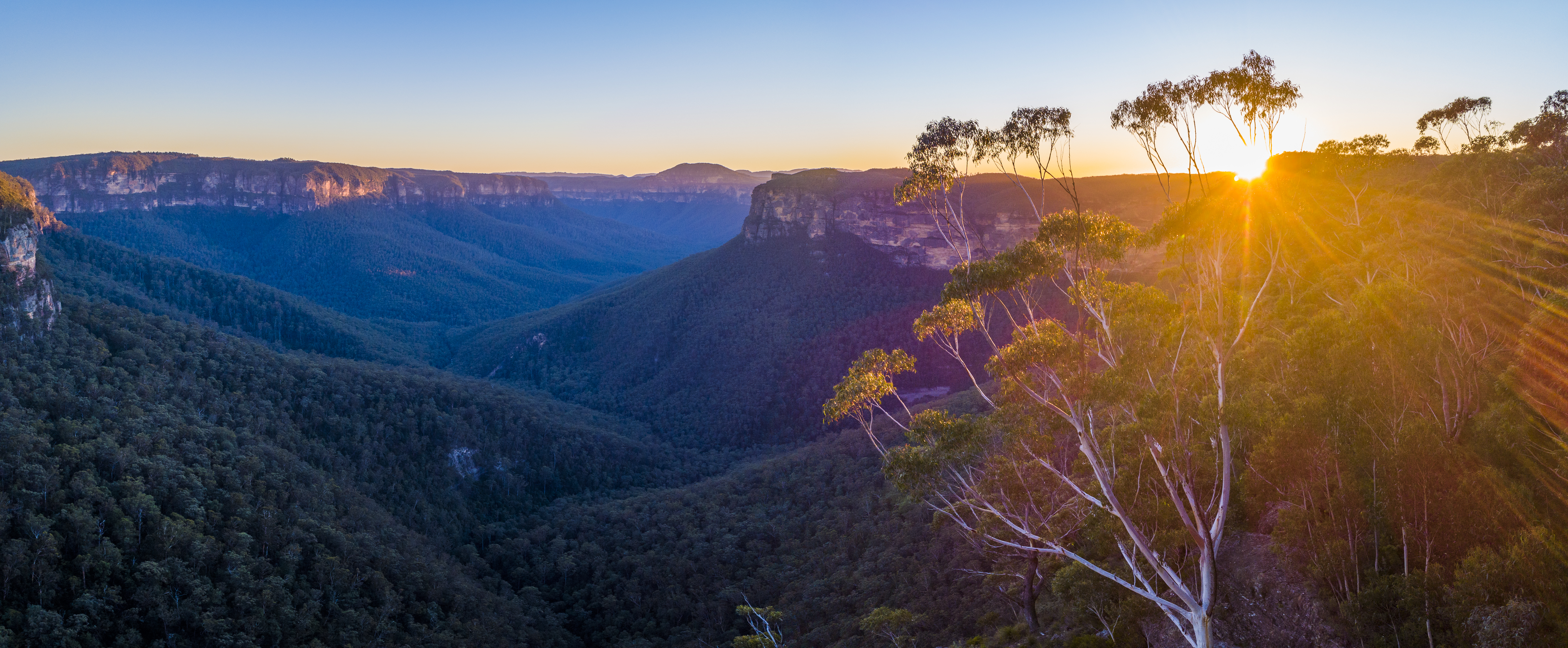 Early morning sunrise in the Blue Mountains National Park